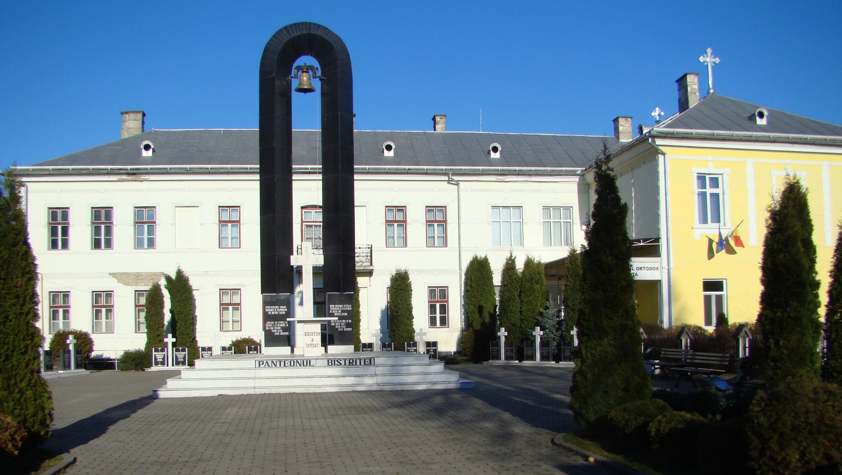 Church of the Presentation of Mary in Bistrița (former franciscan monastery)